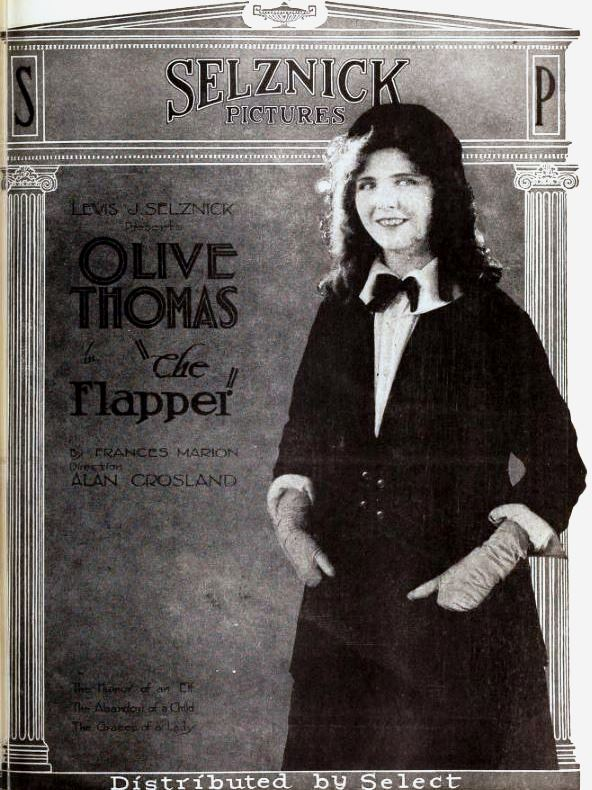 Advertisement for the American comedy film The Flapper (1920) with Olive Thomas, on page 19 of the May 8, 1920 Exhibitors Herald.